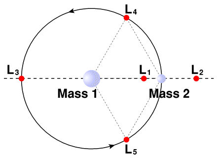 Diagram showing the Lagrange points for two masses